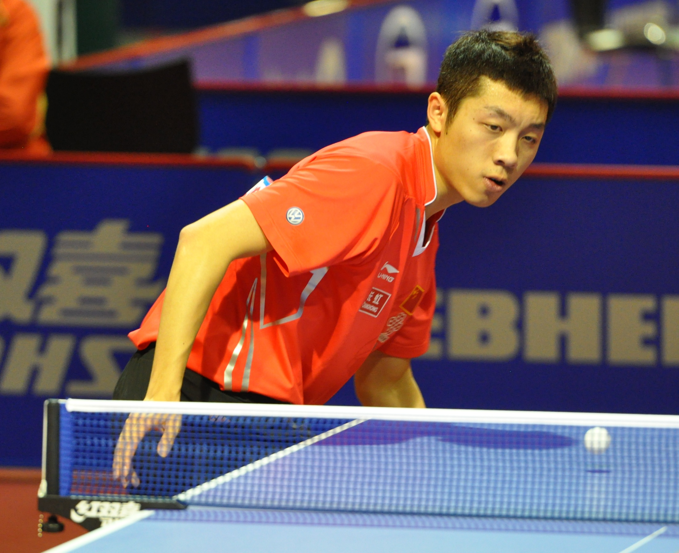 Xu Xin playing in the 2011 World Table Tennis Championships in Rotterdam